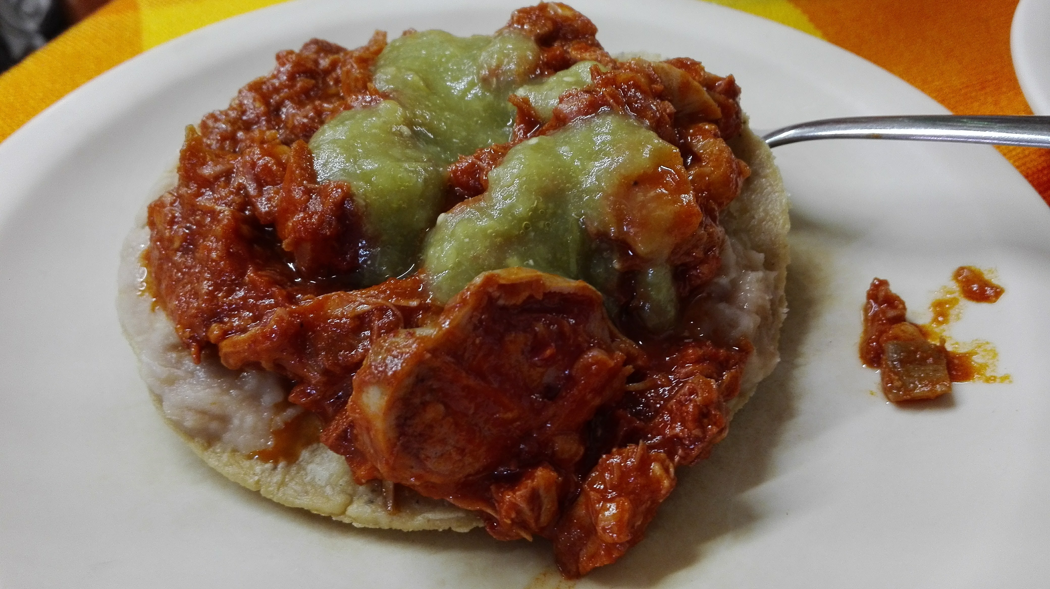 Tostada de Chanfaina: a stew made of offal